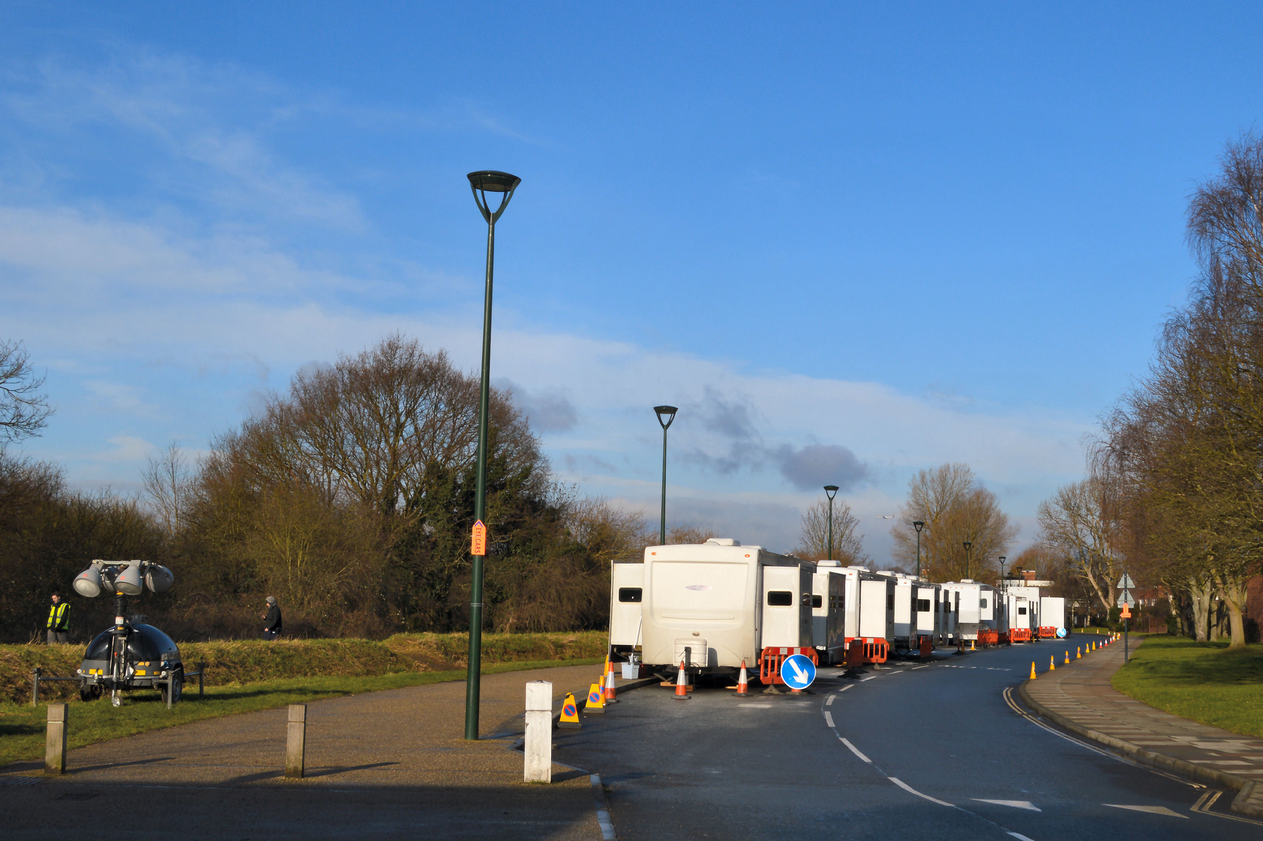 Film crew for "Now You See Me 2" (released 2016), along Riverside Drive, Ham, Richmond. Filming at Teddington Lock.